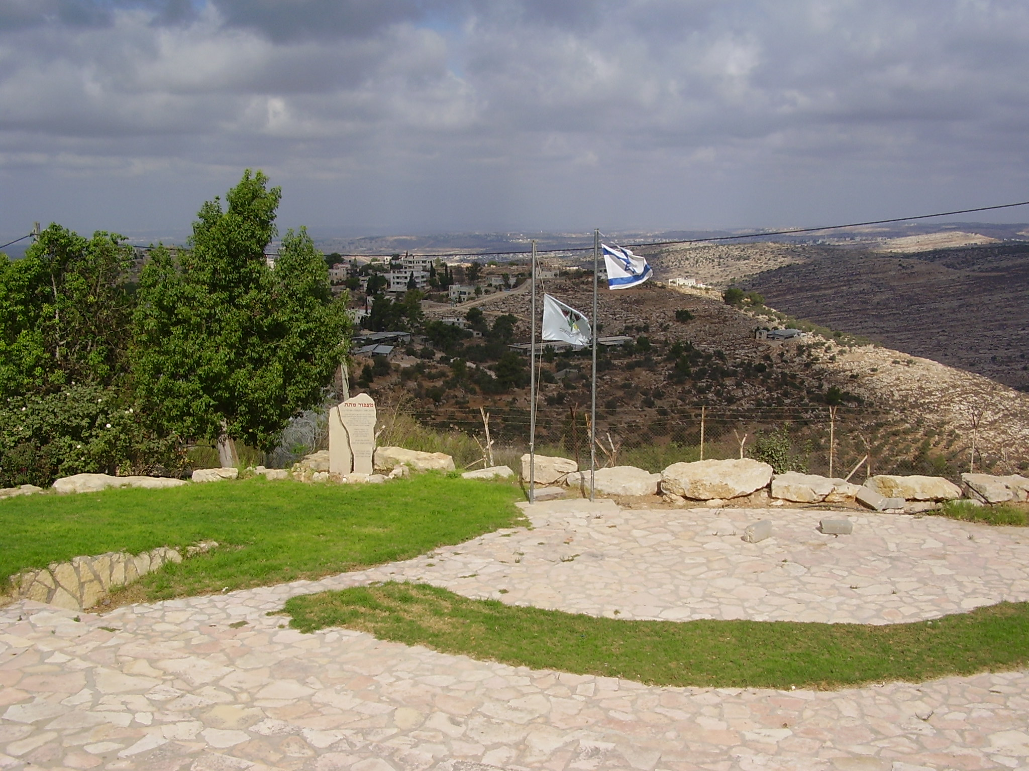 matat look-out in bet-horon